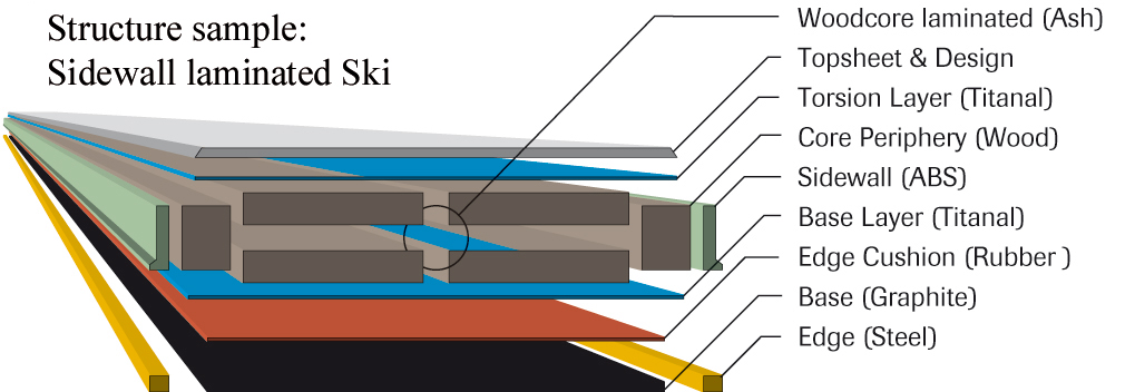 Cross section of a sidewall laminated alpine ski